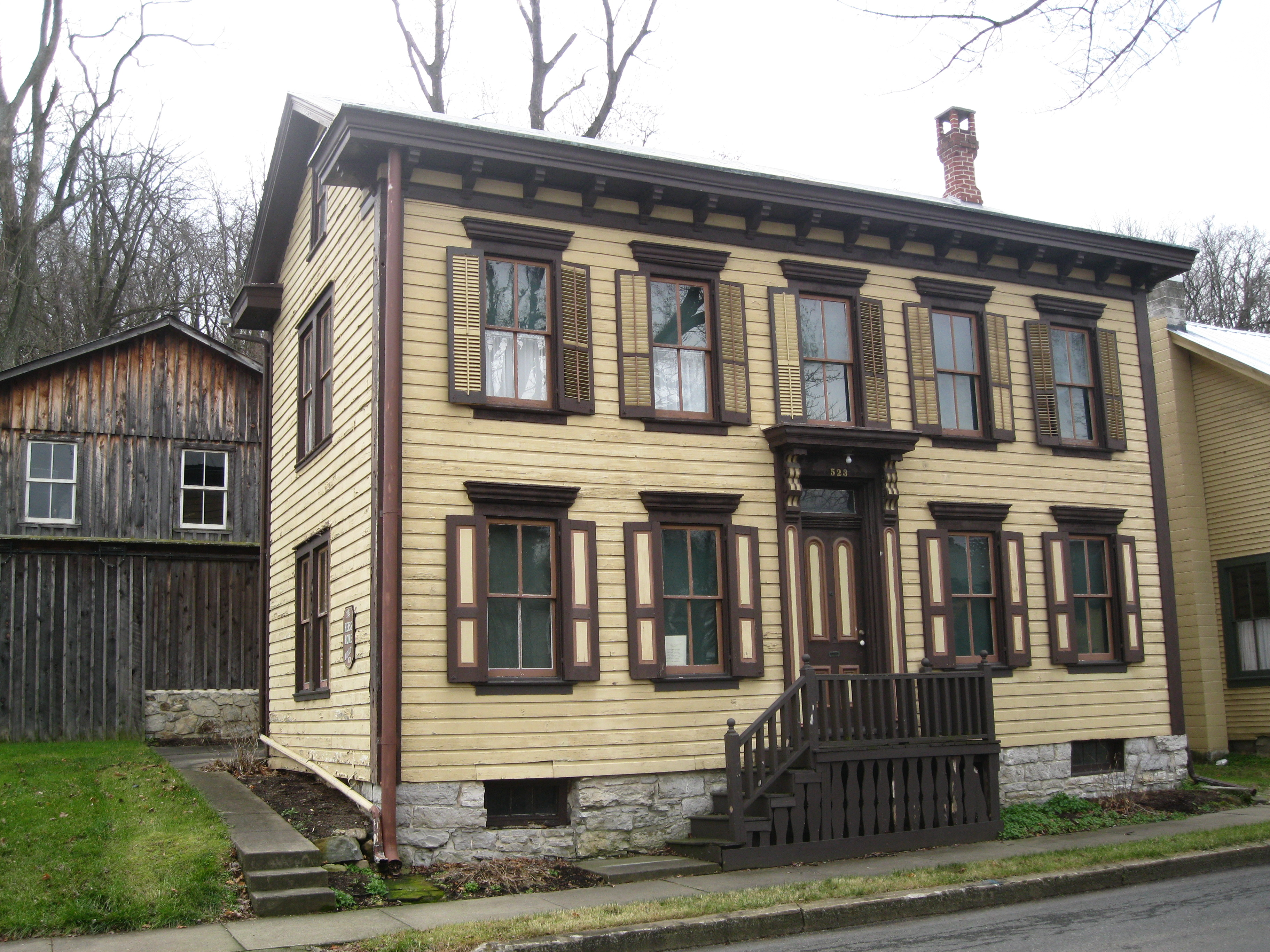 William A. Heiss House and Buggy Shop, listed on the National Register of Historic Places, at 523 Green Street in Mifflinburg, Pennsylvania, USA